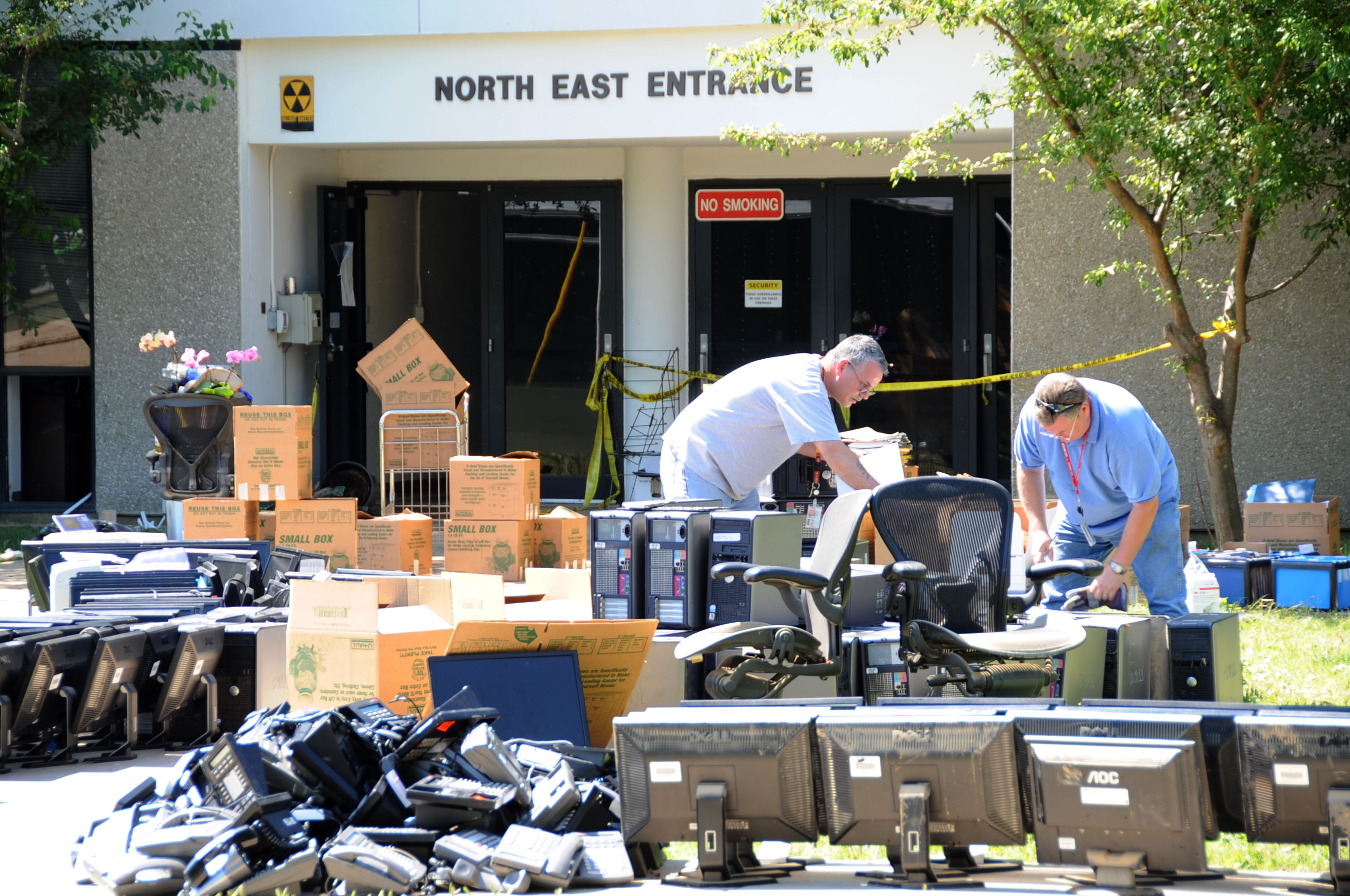 MILLINGTON, Tenn. (May 5, 2010) Mark Vaughn and Russ Hilbert, civilian employees at Navy Personnel Command, take inventory of computer equipment damaged by flooding at Naval Support Activity Mid-South. Two days of rain dumped more than 14 inches in the area May 1 and 2, causing a drainage ditch on the east side of the base to spill over and flood parts of the base. (U.S. Navy photo by Mass Communication Specialist 1st Class LaTunya Howard/Released)